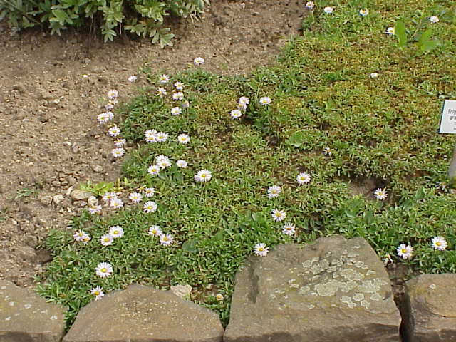 Species: Erigeron grandiflorus Family: Asteraceae Image No. 2